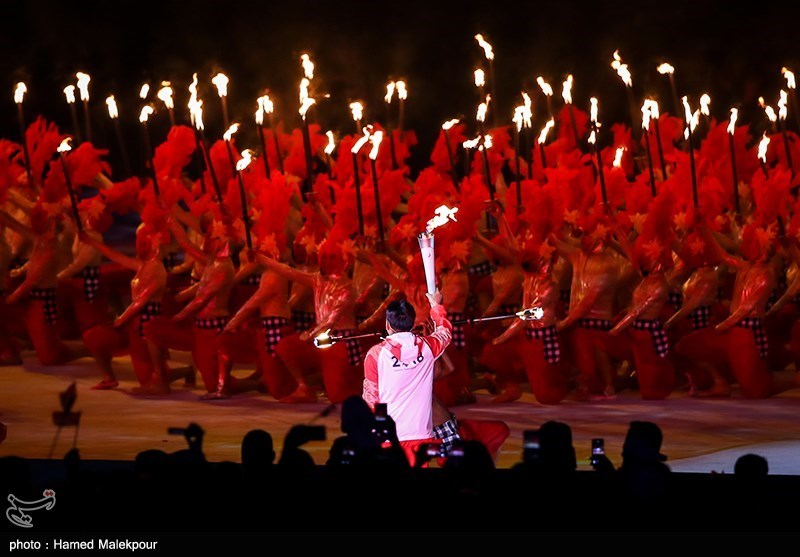 2018 Asian Games opening ceremony